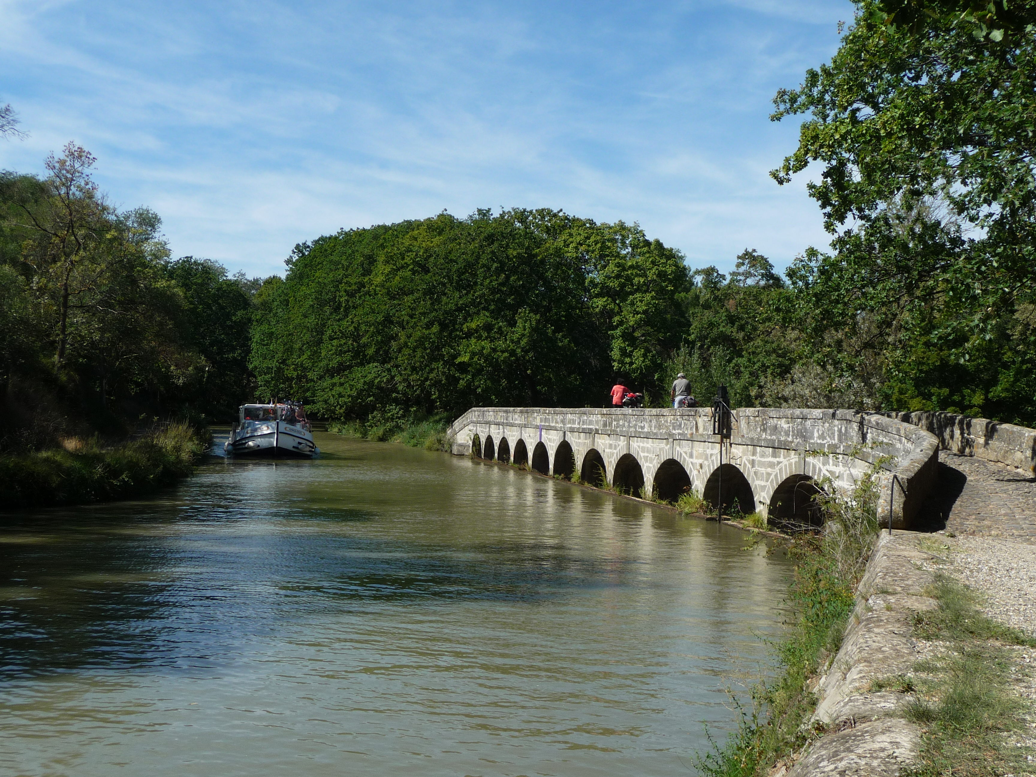 Argent-Double aqueduct on the Canal du Midi looking westwards